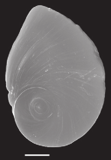 Photo of the outer side of the operculum of Marstonia comalensis USNM 874926. Scale bar is 200 μm.